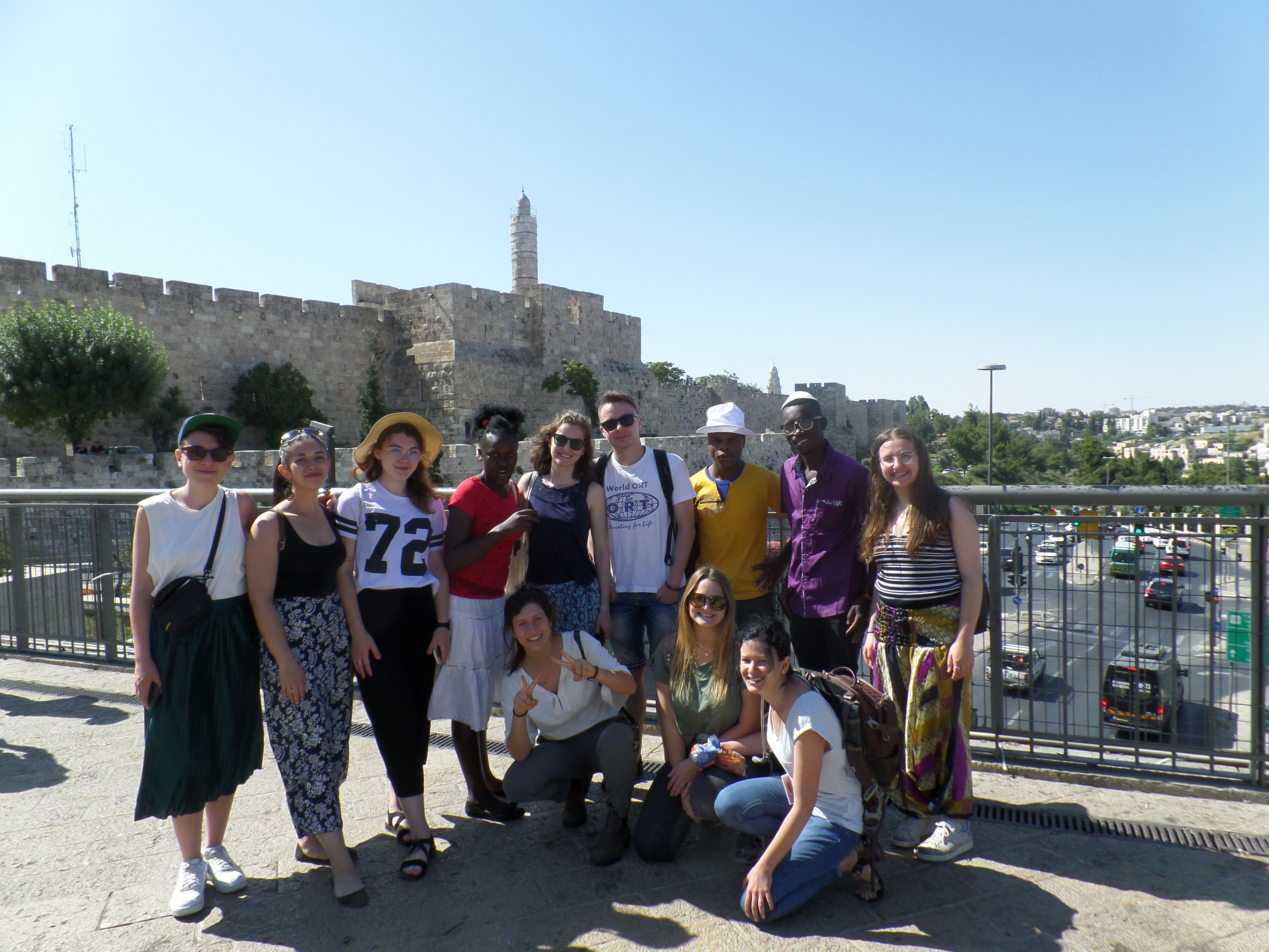 Masorti youth leaders from six countries spend summers interning in Jerusalem and learning to be NOAM youth leaders.